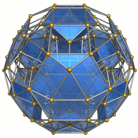 Cantellated 24-cell stereo projection wireframe + Cuboctahedrons